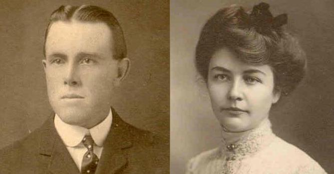 Johm and Birtha Phillips.